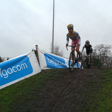 Ayako Toyooka at the Azencross 2012